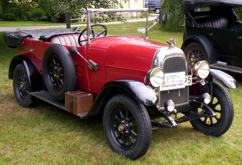 Fiat 501 Torpedo 1925